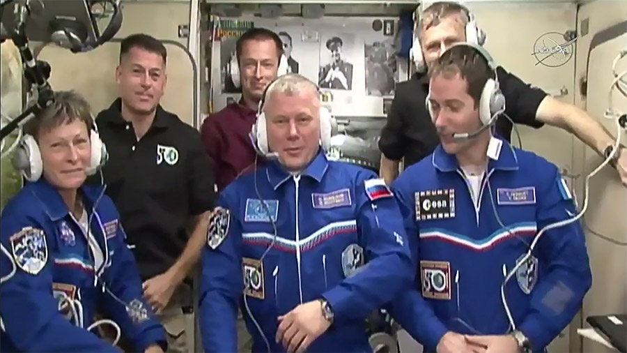 The six-member Expedition 50 crew is comprised of (front row, from left) Peggy Whitson, Oleg Novitskiy and Thomas Pesquet. In the back, from left, are Shane Kimbrough, Sergey Ryzhikov and Andrey Borisenko.